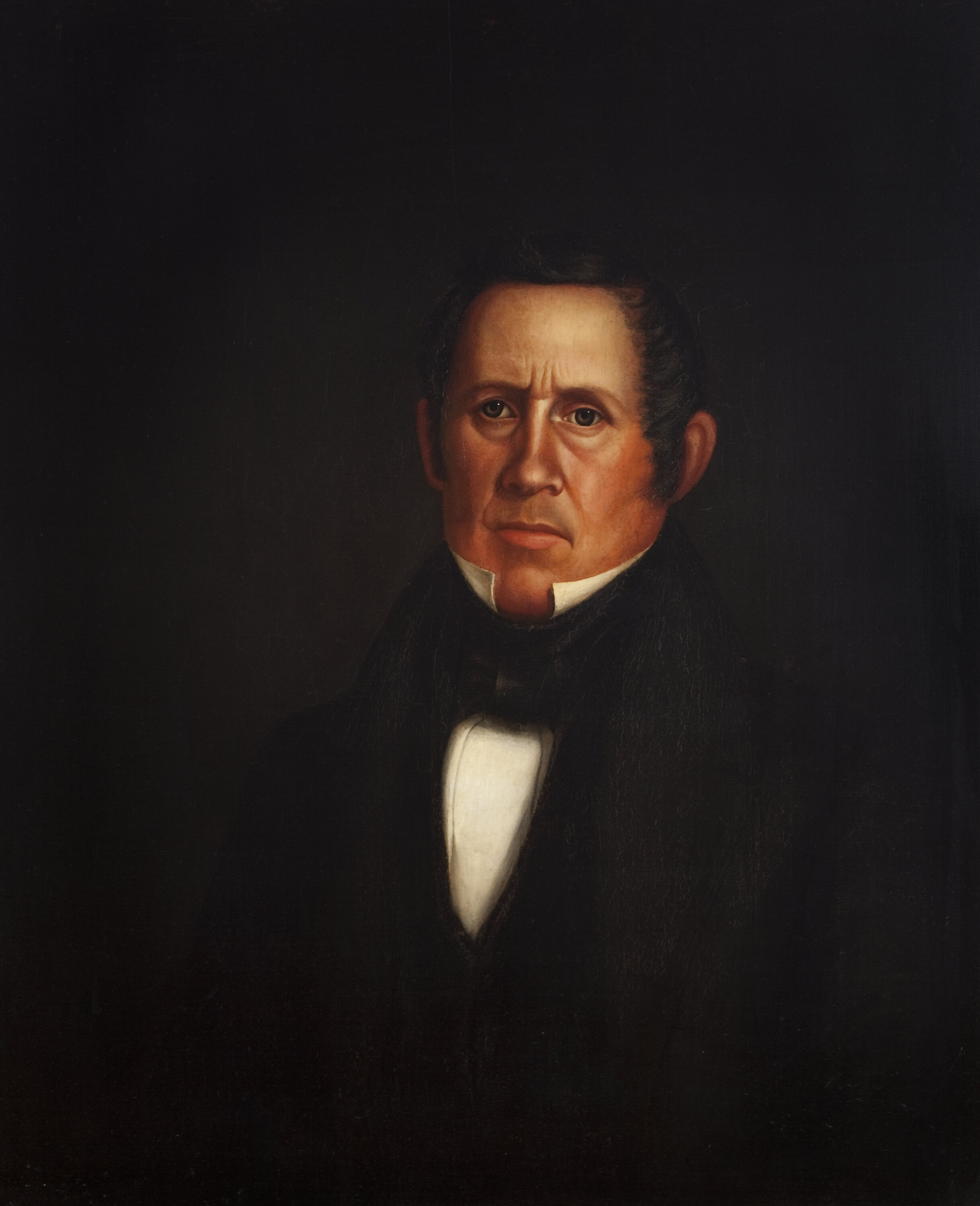 Portrait of Charles Tufts (July 16, 1781 – December 24, 1876) Sylvester Harrington Oil on panel 29.250" H. x 23.750" W